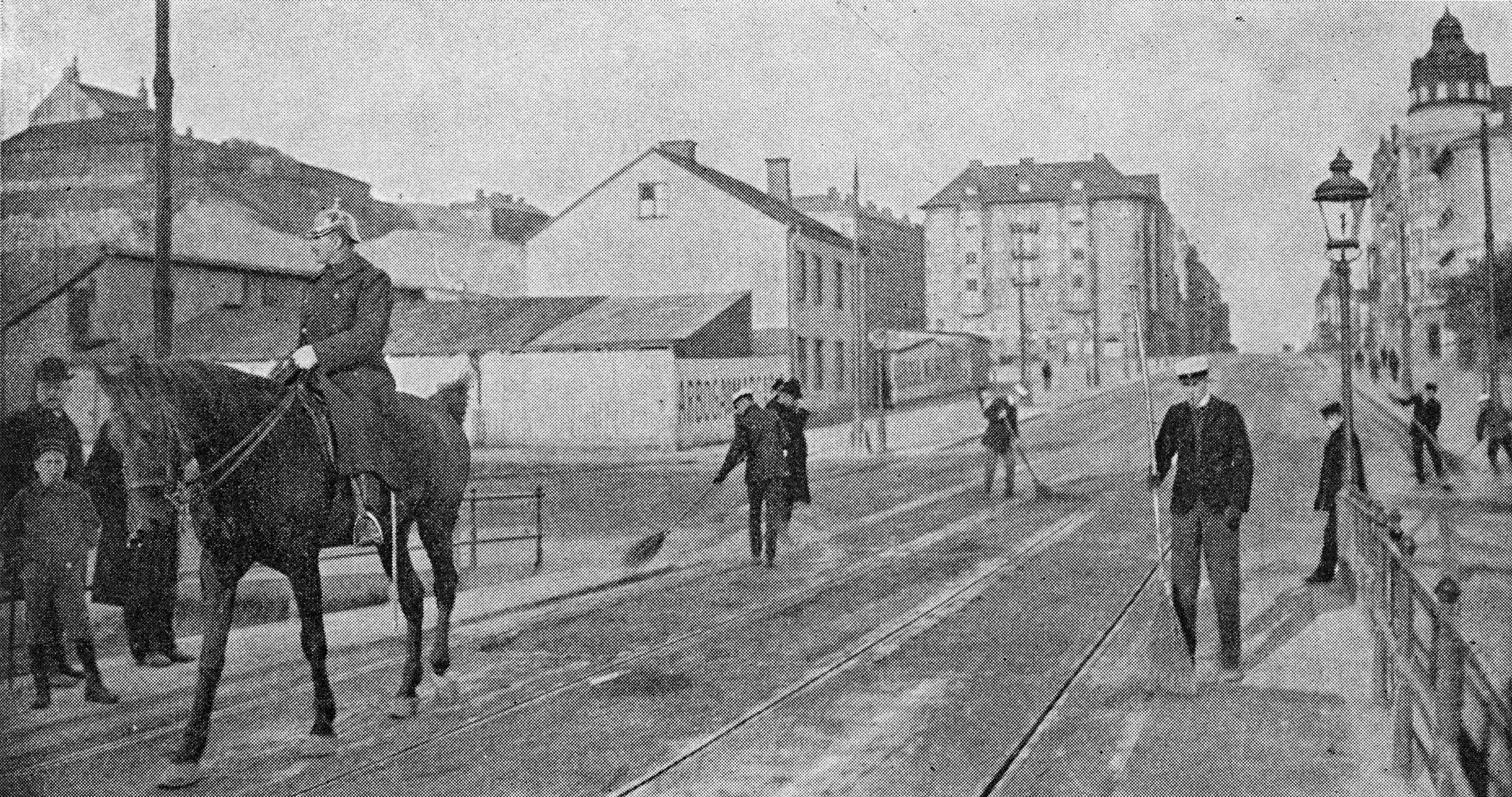 Strikebreaking students as streetsweepers - escorted by police - during the strike in Stockholm in 1905. Clerks, students and lieutnants joined in as strikebreakers at the request of bourgoise newspapers.